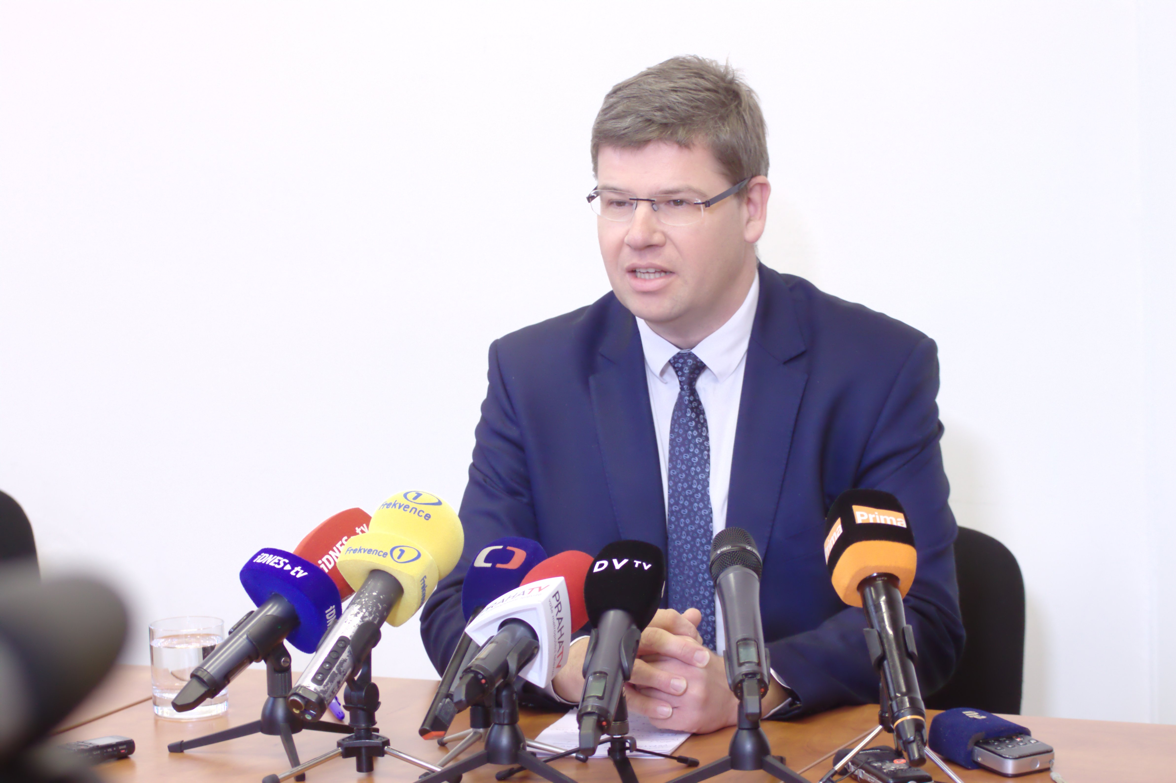 Jiří Pospíšil during a press conference related to the Prague city coalition negotiations Personality rights warningAlthough this work is freely licensed or in the public domain, the person(s) shown may have rights that legally restrict certain re-uses unless those depicted consent to such uses. In these cases, a model release or other evidence of consent could protect you from infringement claims.